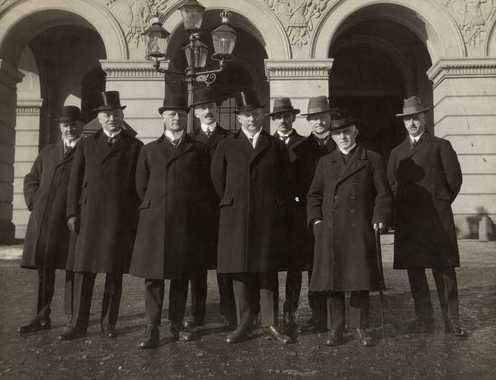 Cabinet of Ivar Lykke outside Royal Palace in Oslo, 1926. Photo in the collection of Oslo Museum via DigitaltMuseum.